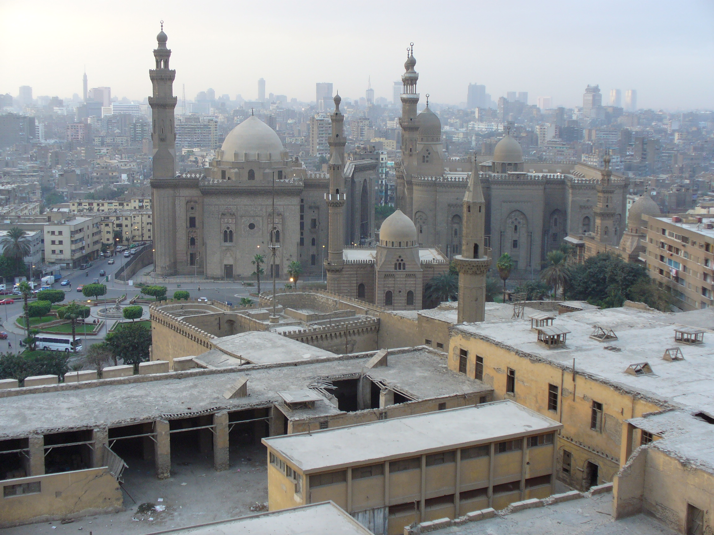 Egypt:Cairo:Citadel:View to the city and the main gate.